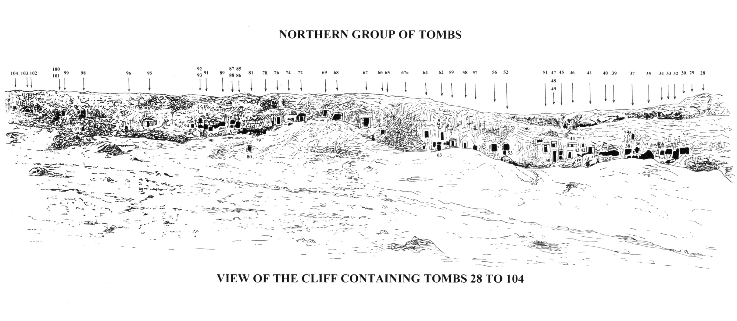 Northern Group of tombs at Deir el-Gebrawi